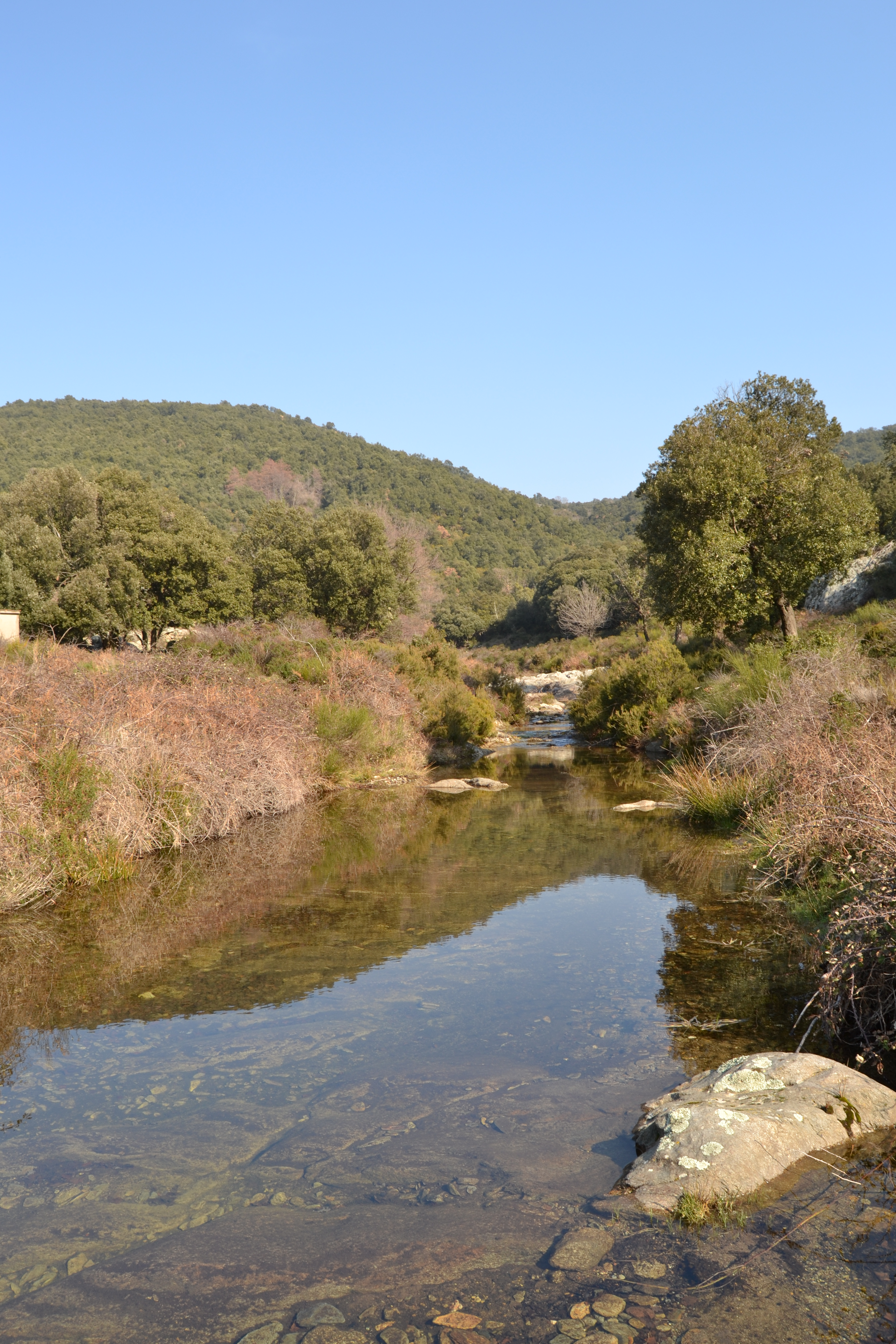 The Llobregat d'Empordà close to its spring in La Jonquera (Catalonia, Spain).